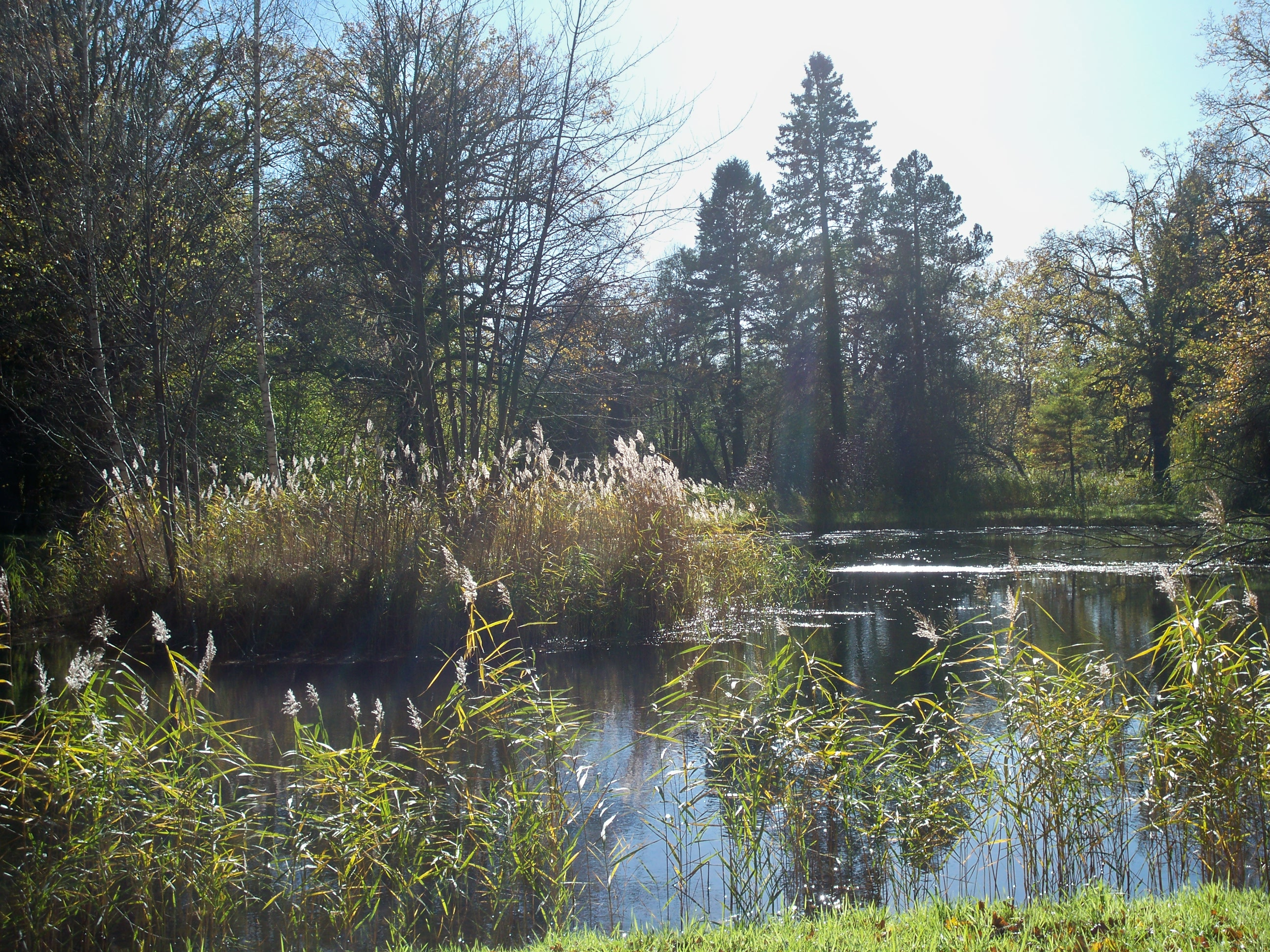 Weteritz, Gardelegen, Saxony-Anhalt, park with artificial lake